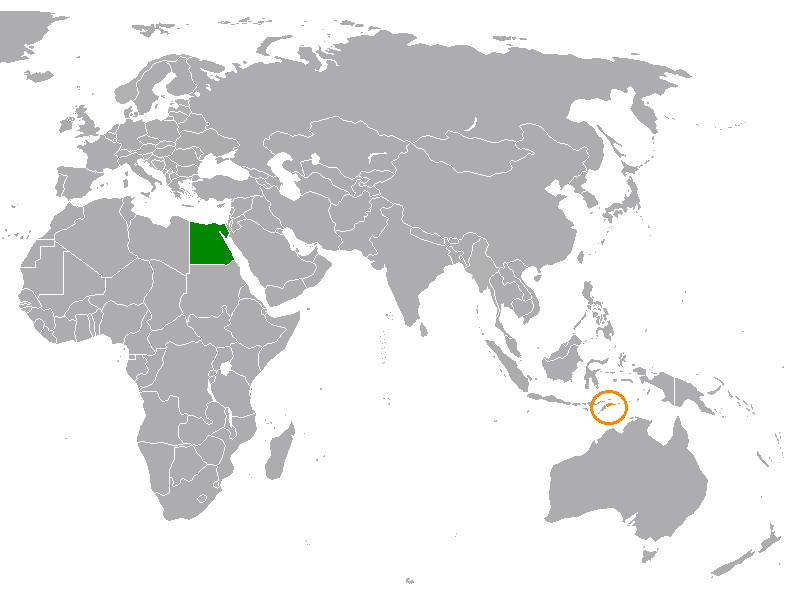 Map showing locations of both Egypt and East Timor